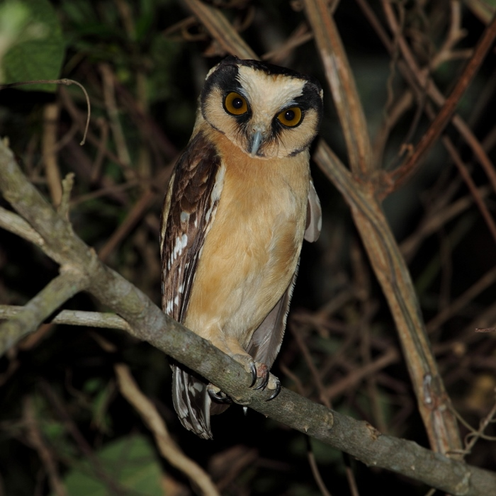 Buff-fronted Owl at Dourado - SP - Brazil